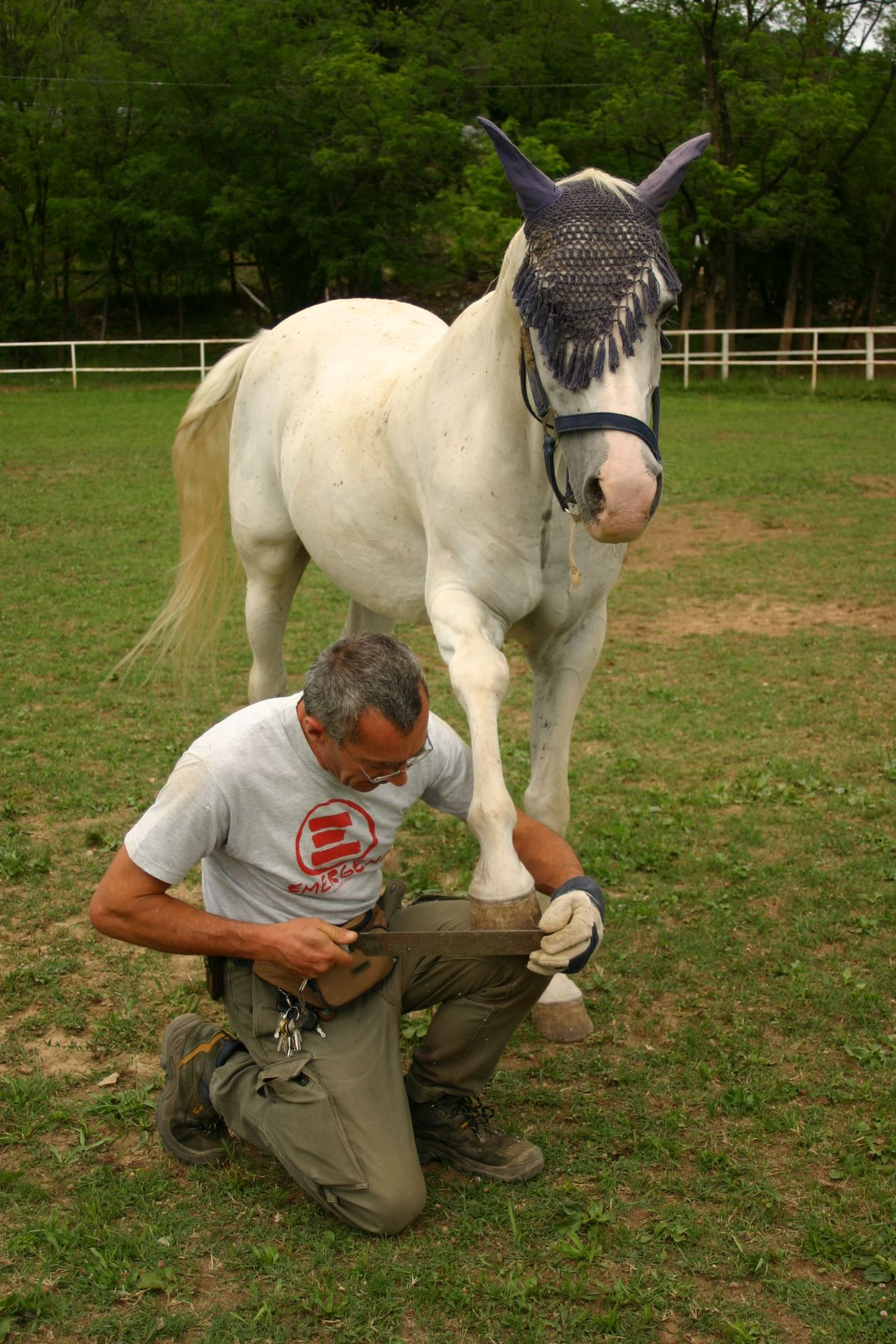 An Italian barefooter is doeing a "wild-horse" trim on a free horse. The horse and the man are mutually confident after some natural communication. Location: Ronchi dei Legionari (IT)